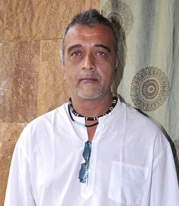 Lucky Ali at A R Rahman at 'MTV Unplugged Season 2' launch